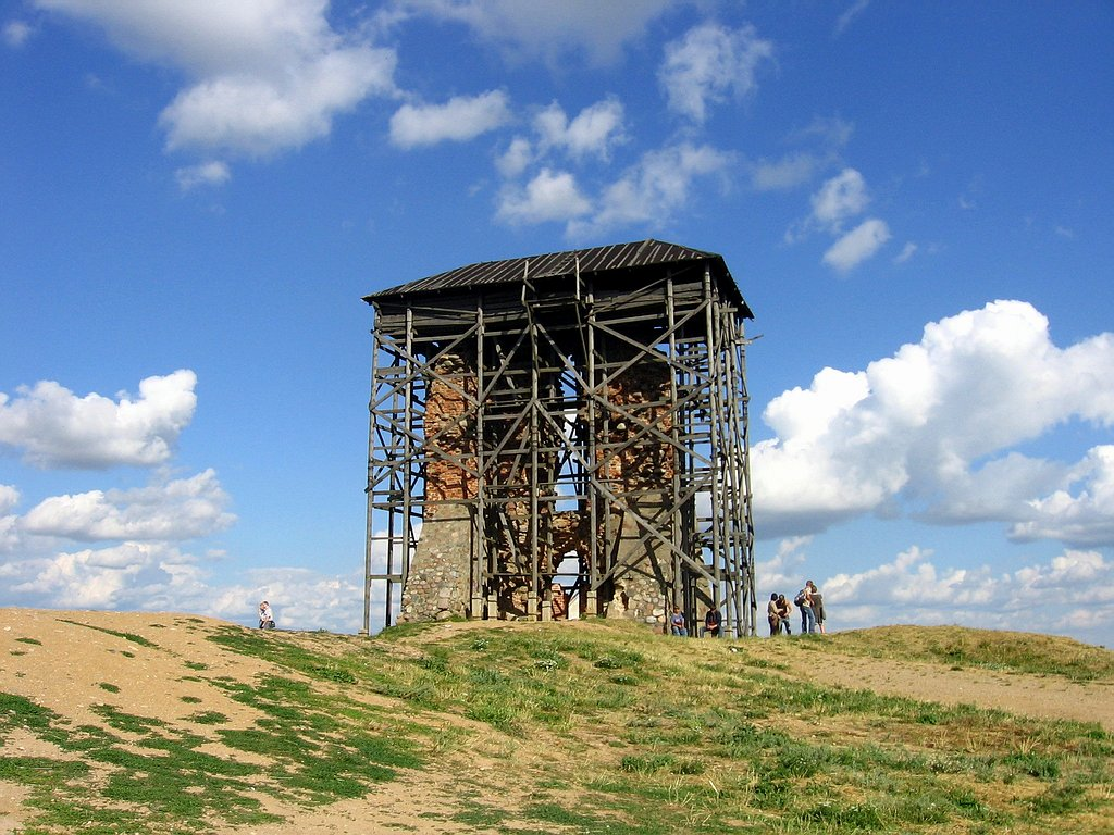 The ruins of Kaściolnaja (Church) Turrent. Navahradak Castle. Navahradak, Belarus